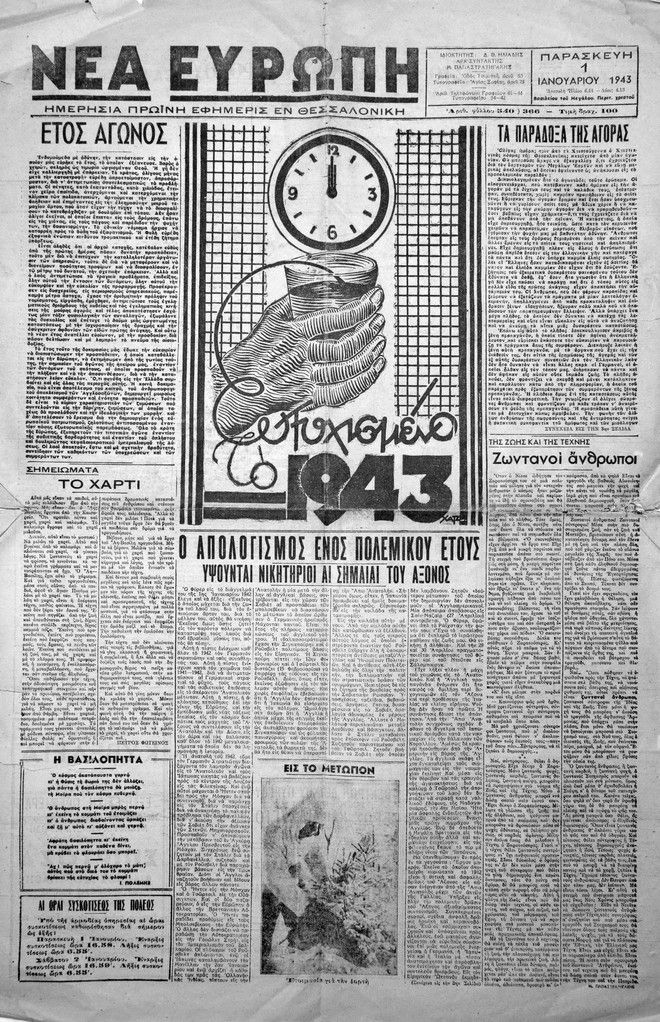 Nea Evropi Front Page 1 January 1943